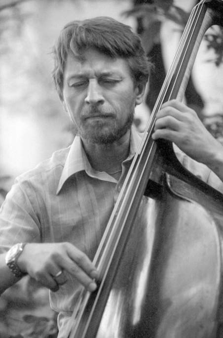 George Mraz at Exxon Park, NYC 7/7/83 with the Tommy Flanagan Trio, Vernell Fournier, drums. Photo: Brian McMillen /